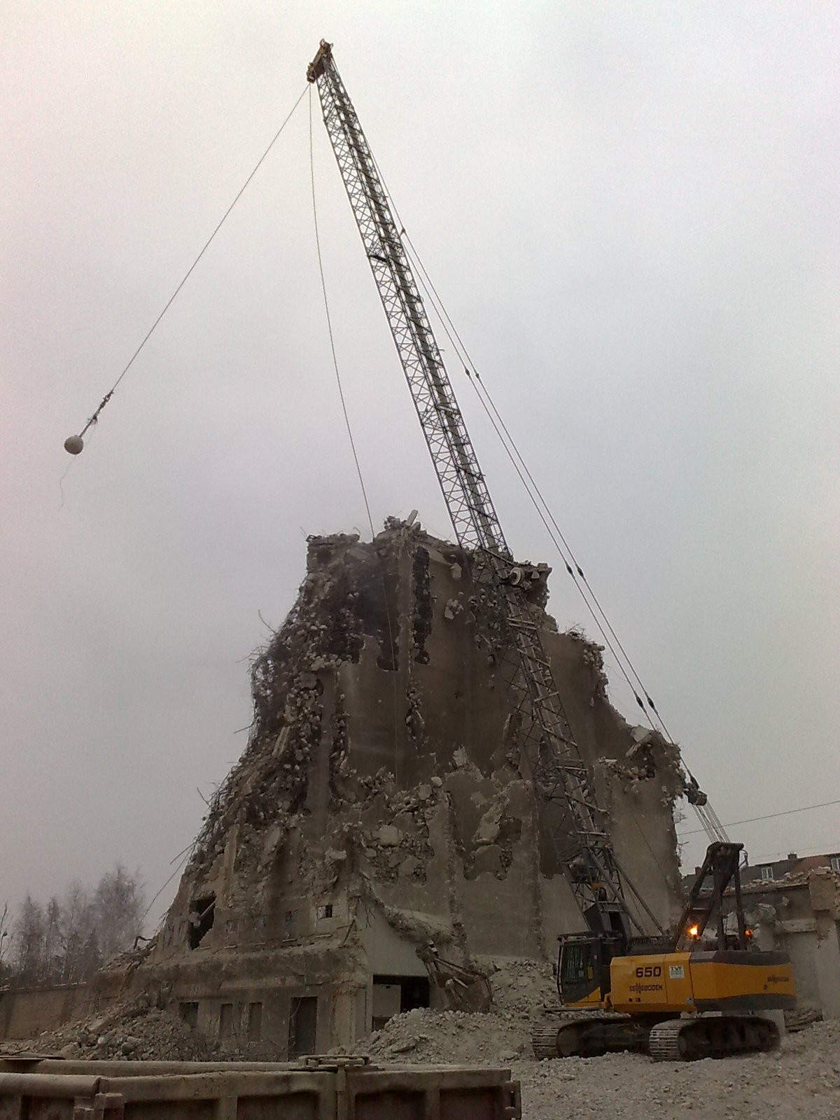 Wrecking ball at work during the demolition of a old milling building in Dresden, Plauen district.